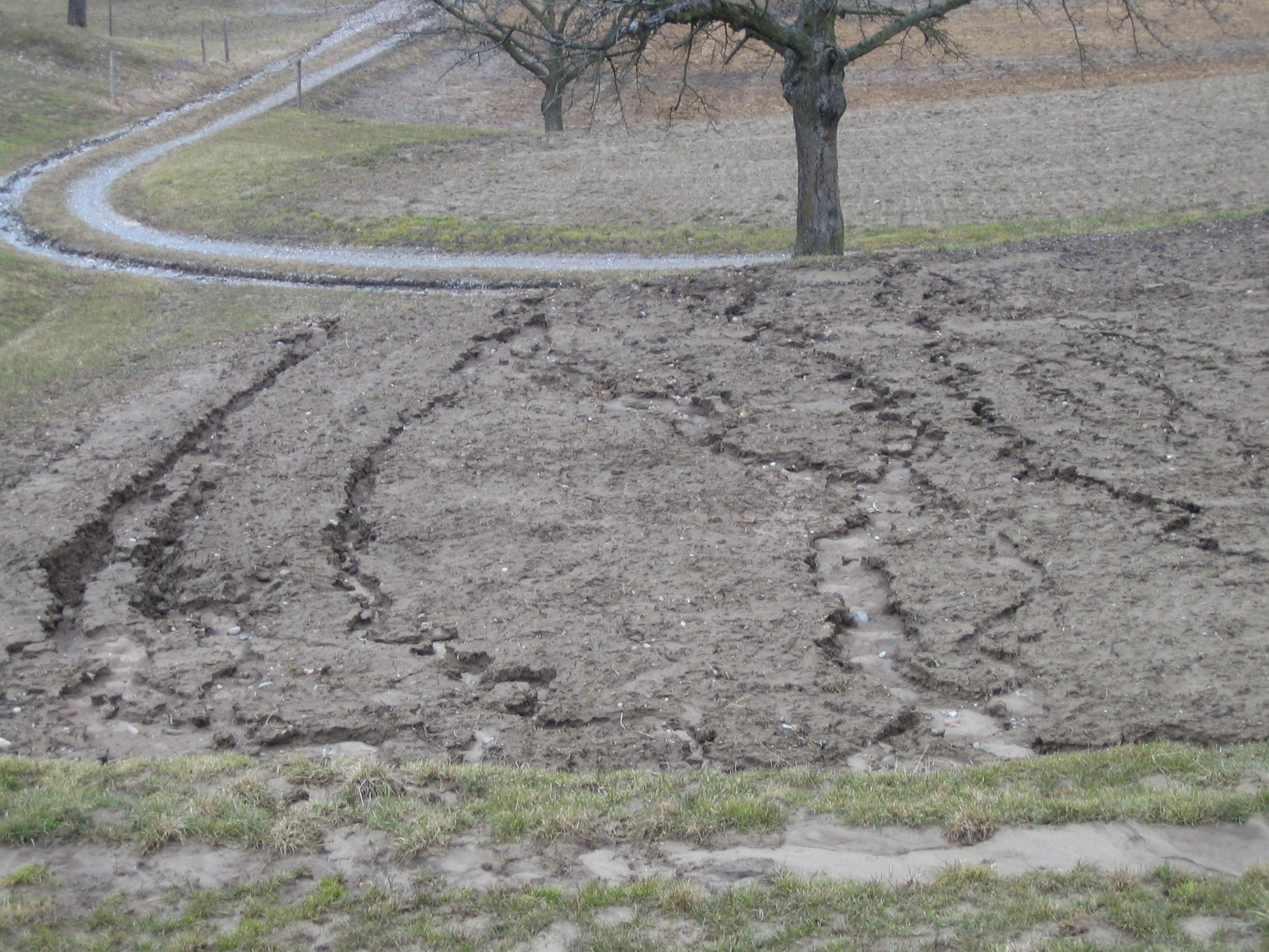 Networks of erosion grooves and channels, canton of Bern, Switzerland